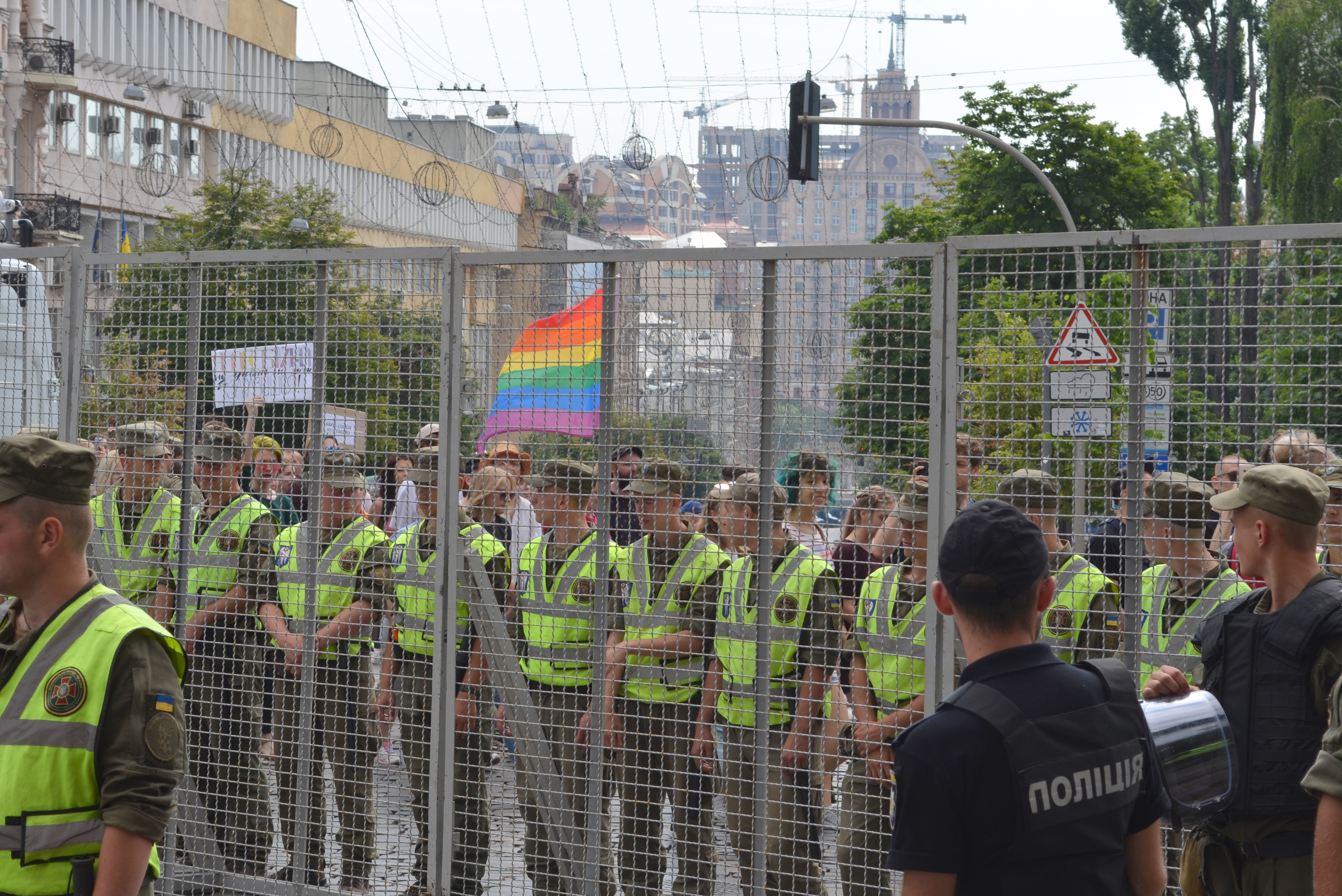 Kyiv Pride 2019 under a heavy police presenceLocation: Ukraine Event type: Kyiv Pride 2019, June 23 Date or year: 2019-06-23